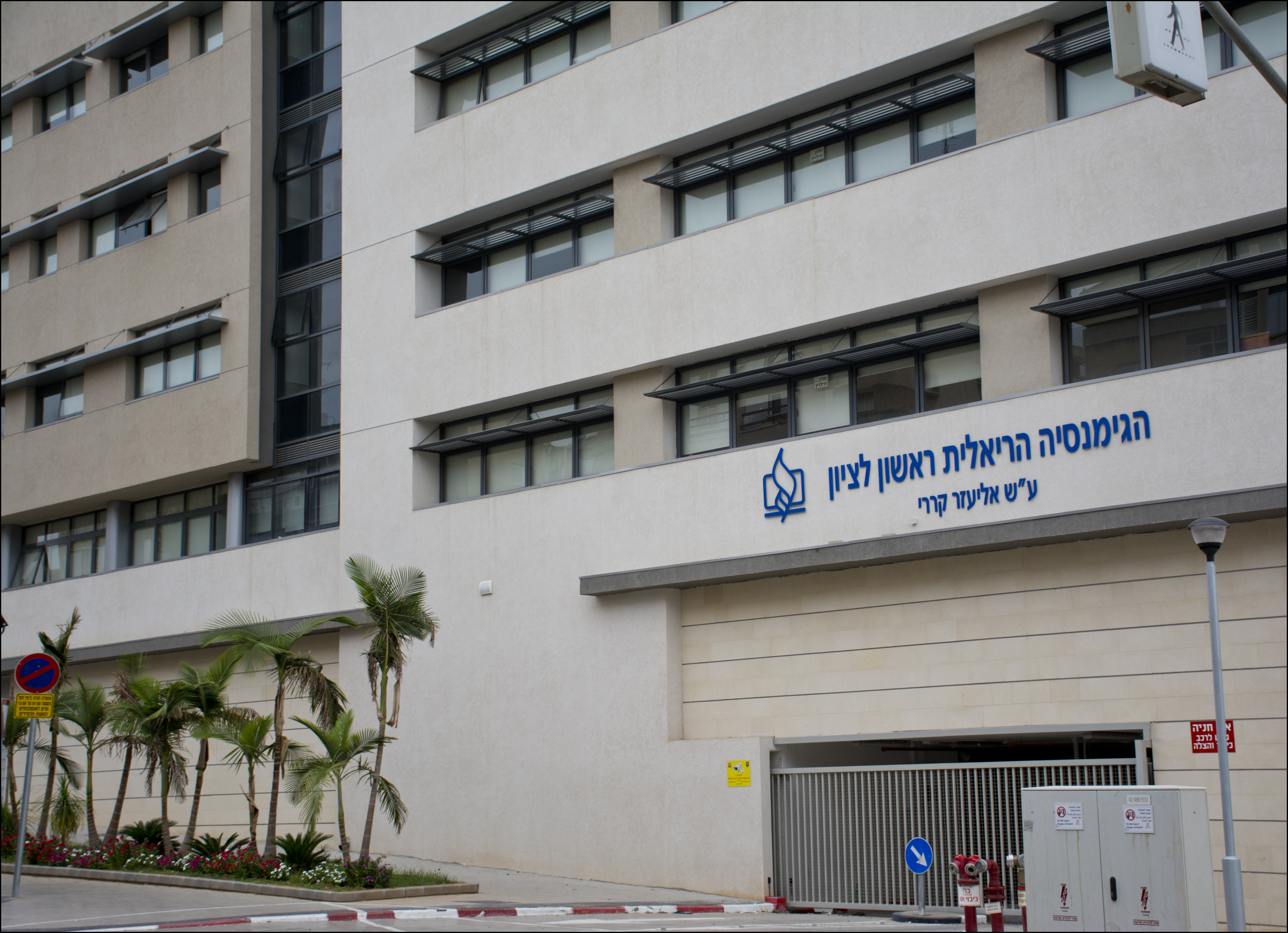 The new building of the Gymnasia Realit, Rishon LeZion, Israel